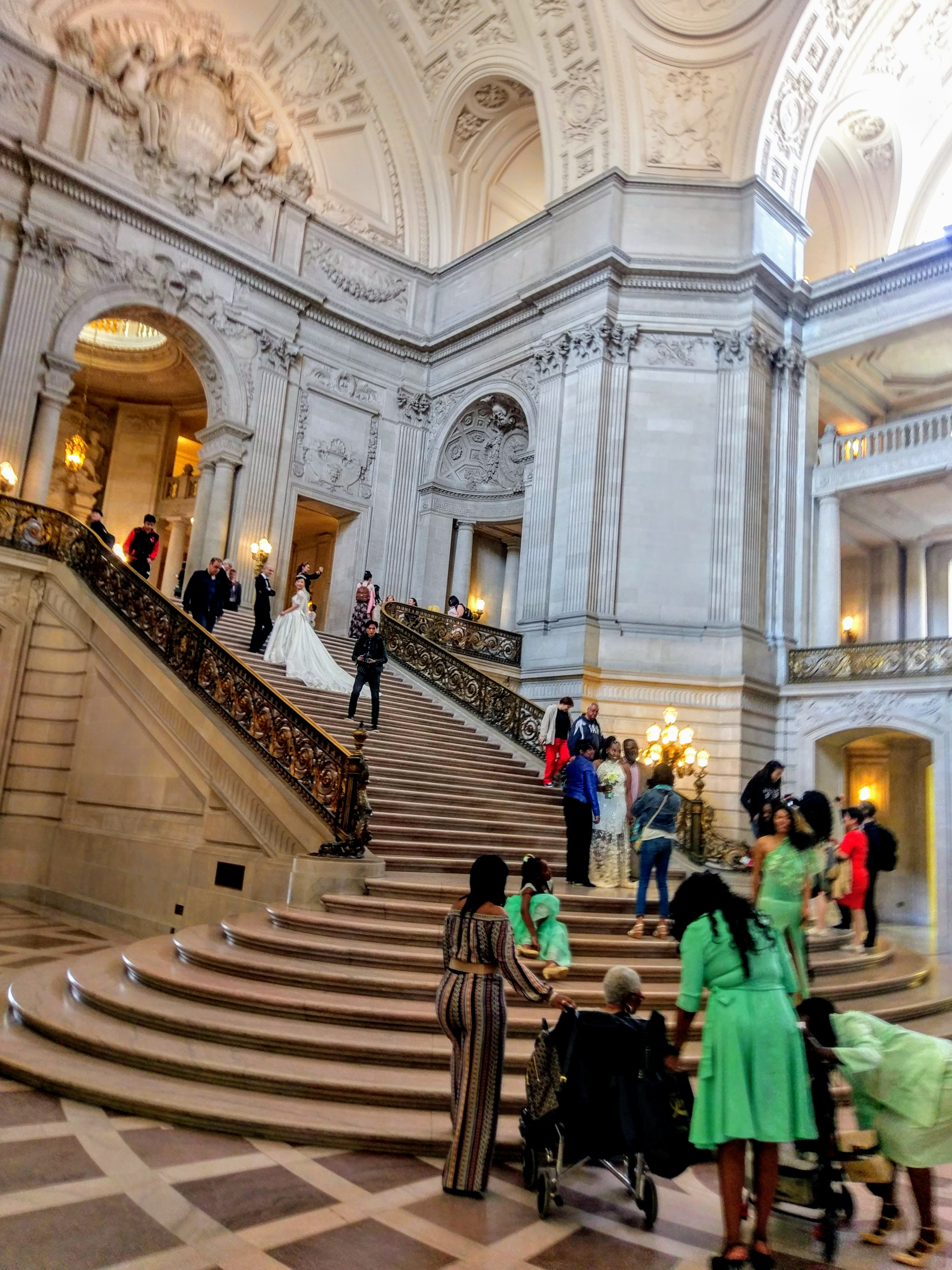 Couples getting married at San Francisco City Hall. Photo by Jim Heaphy.